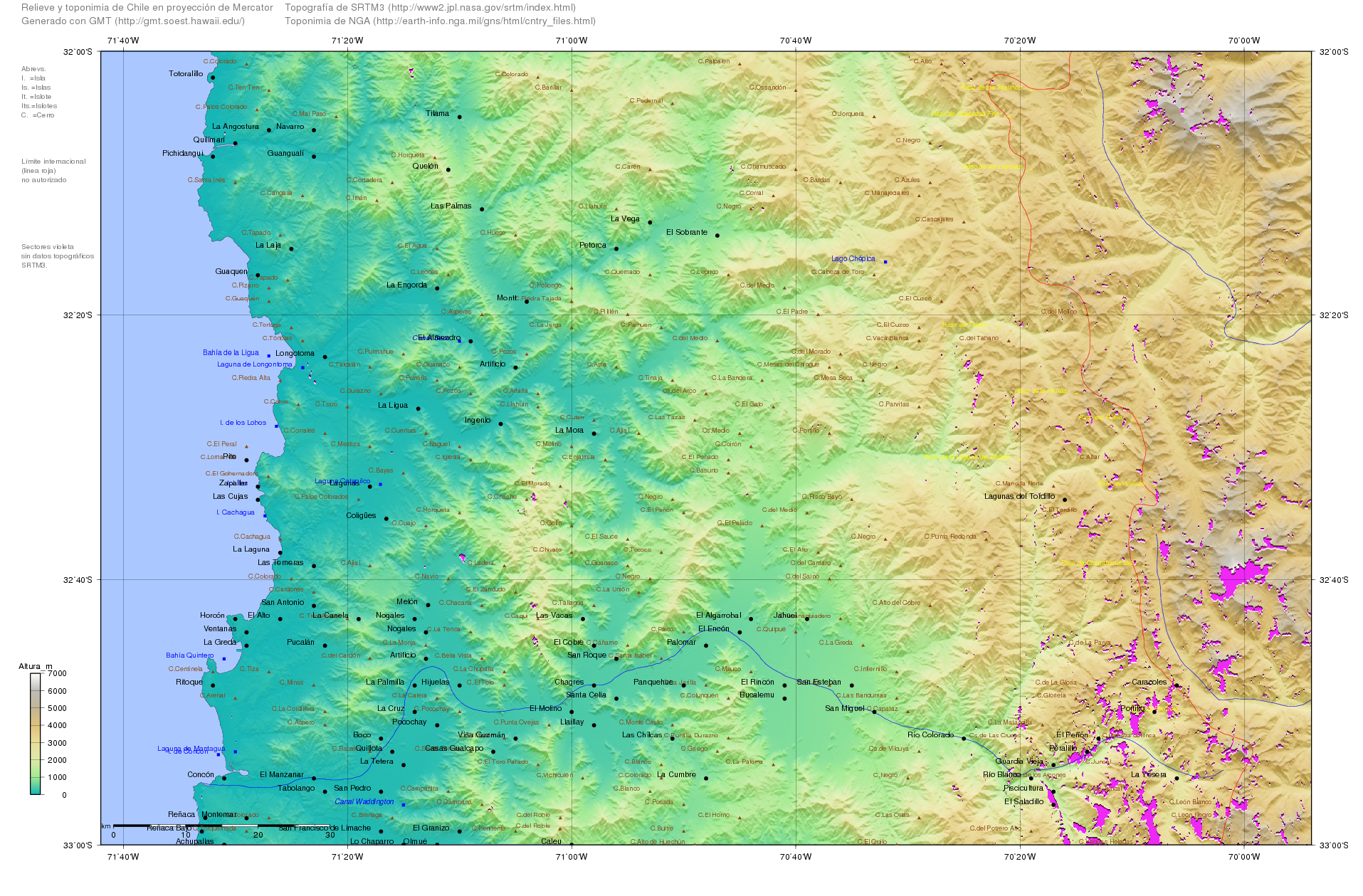 Map of Chile generated with GMT ( topography from SRTM ftp://e0srp01u.ecs.nasa.gov/srtm/version2/SRTM3/ and toponymy from